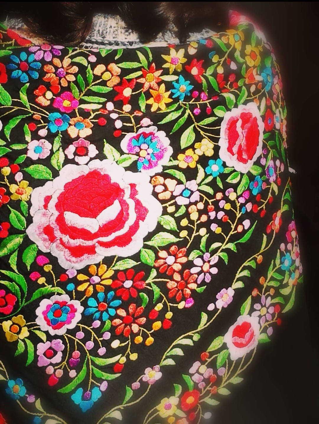 Manton típico de albala